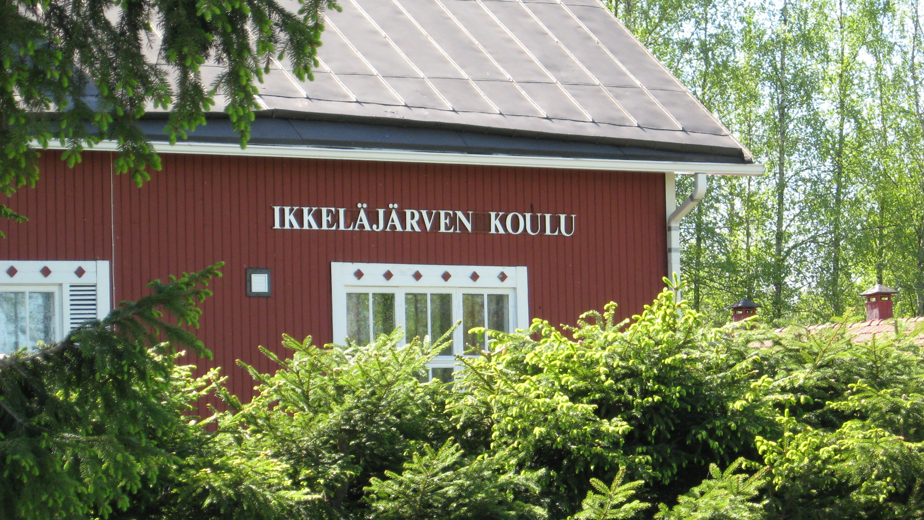 Former Ikkeläjärvi school in village of Ikkeläjärvi, Kauhajoki, Finland.